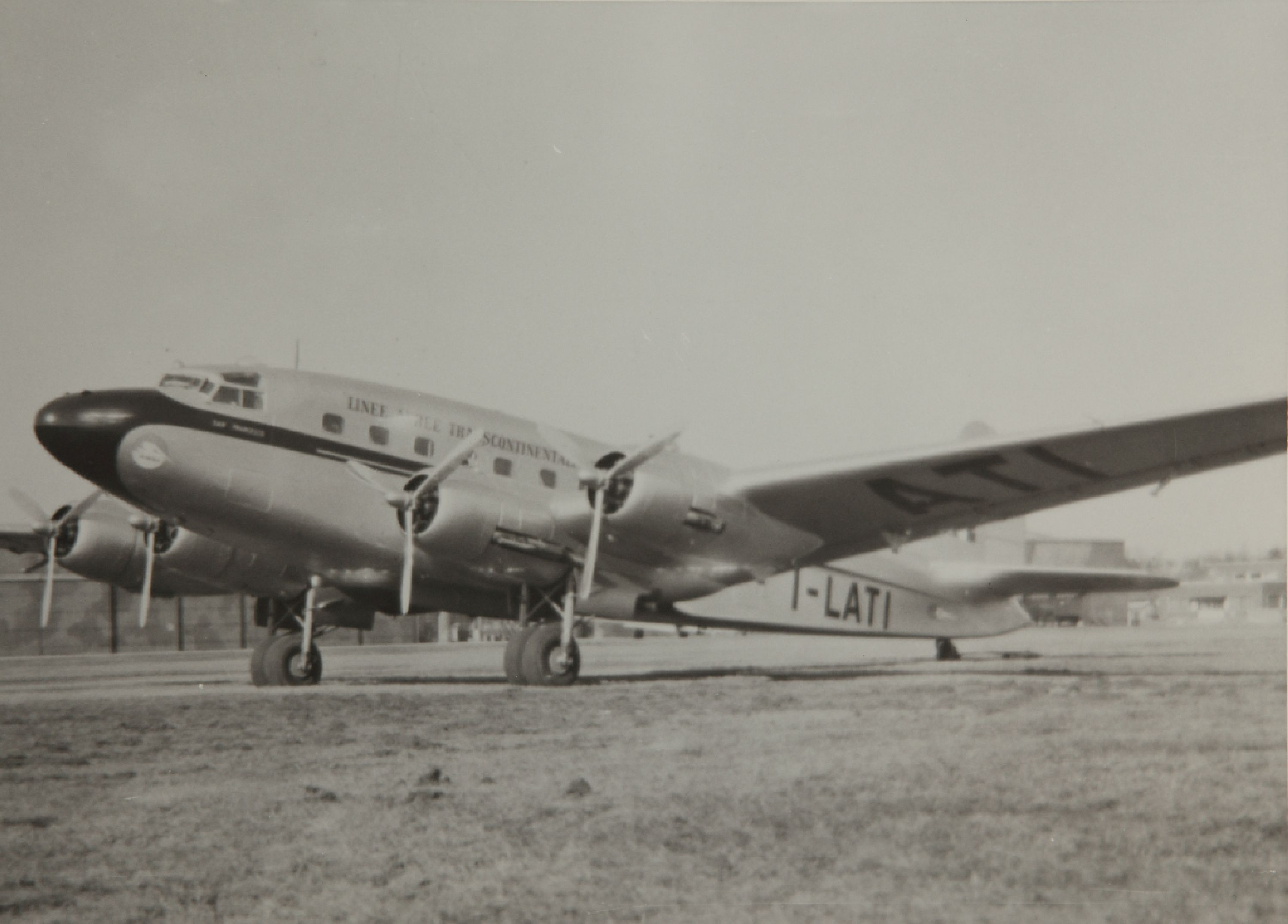 Savoia-Marchetti SM.95